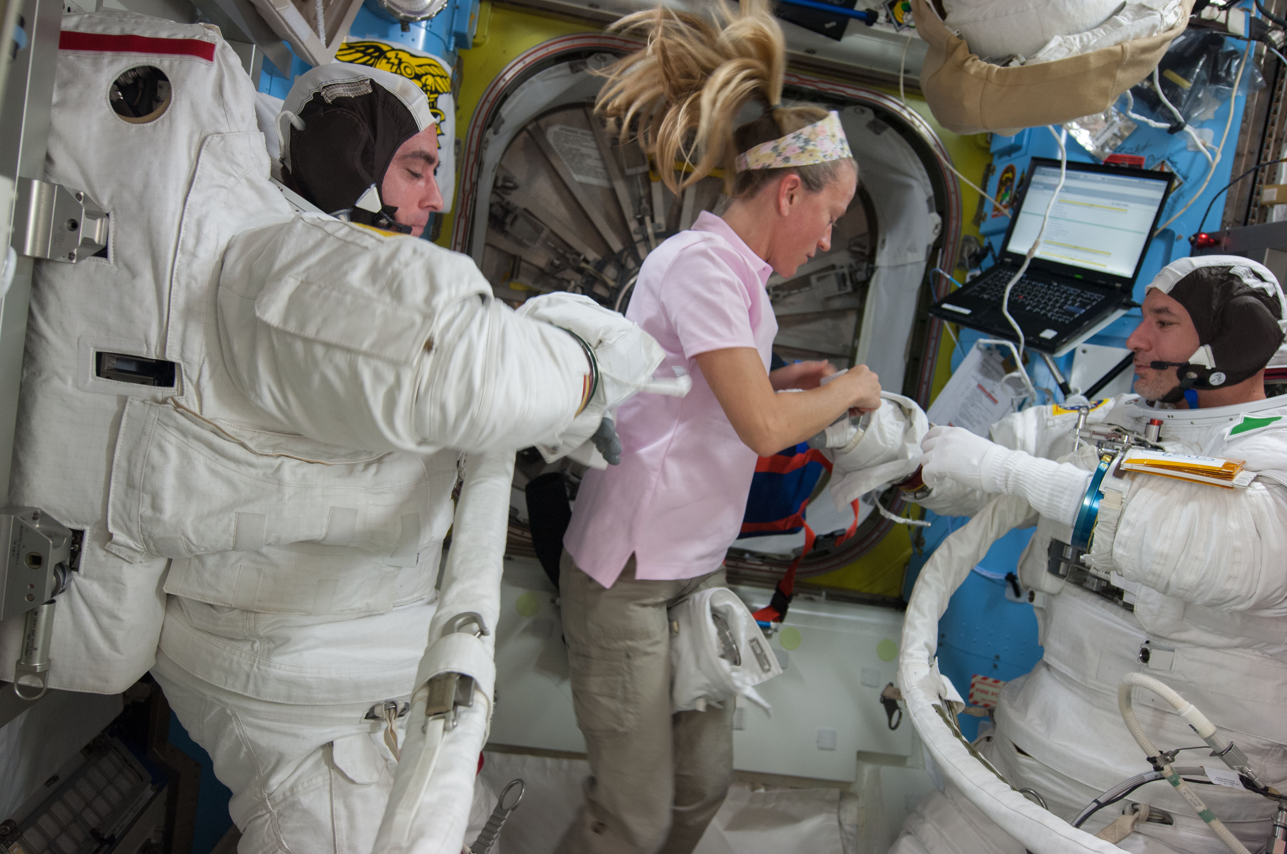 NASA astronaut Chris Cassidy (left) and European Space Agency astronaut Luca Parmitano, both Expedition 36 flight engineers, are pictured in the Quest airlock of the International Space Station as they prepare for the start of a session of extravehicular activity (EVA). Cassidy and Parmitano are wearing Extravehicular Mobility Unit (EMU) spacesuits. NASA astronaut Karen Nyberg, flight engineer, assists her crew members.